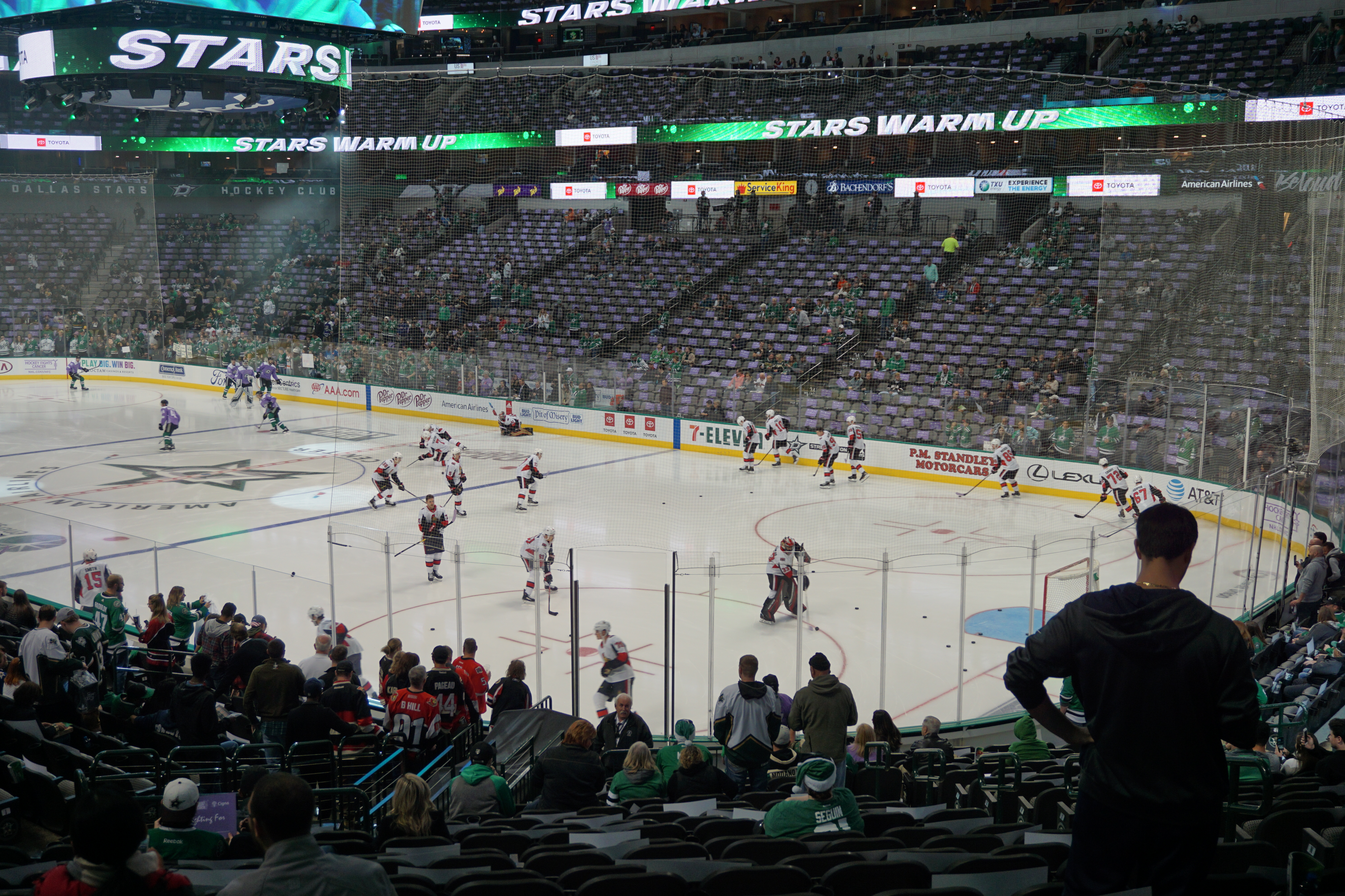 Ottawa warming up before the Ottawa Senators vs. Dallas Stars game at American Airlines Center in Dallas, Texas (United States). Dallas won 6–4.